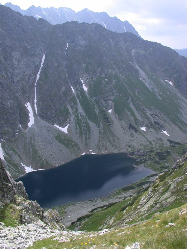 View from Wrota Chałubinskiego in Tatra Mountains.